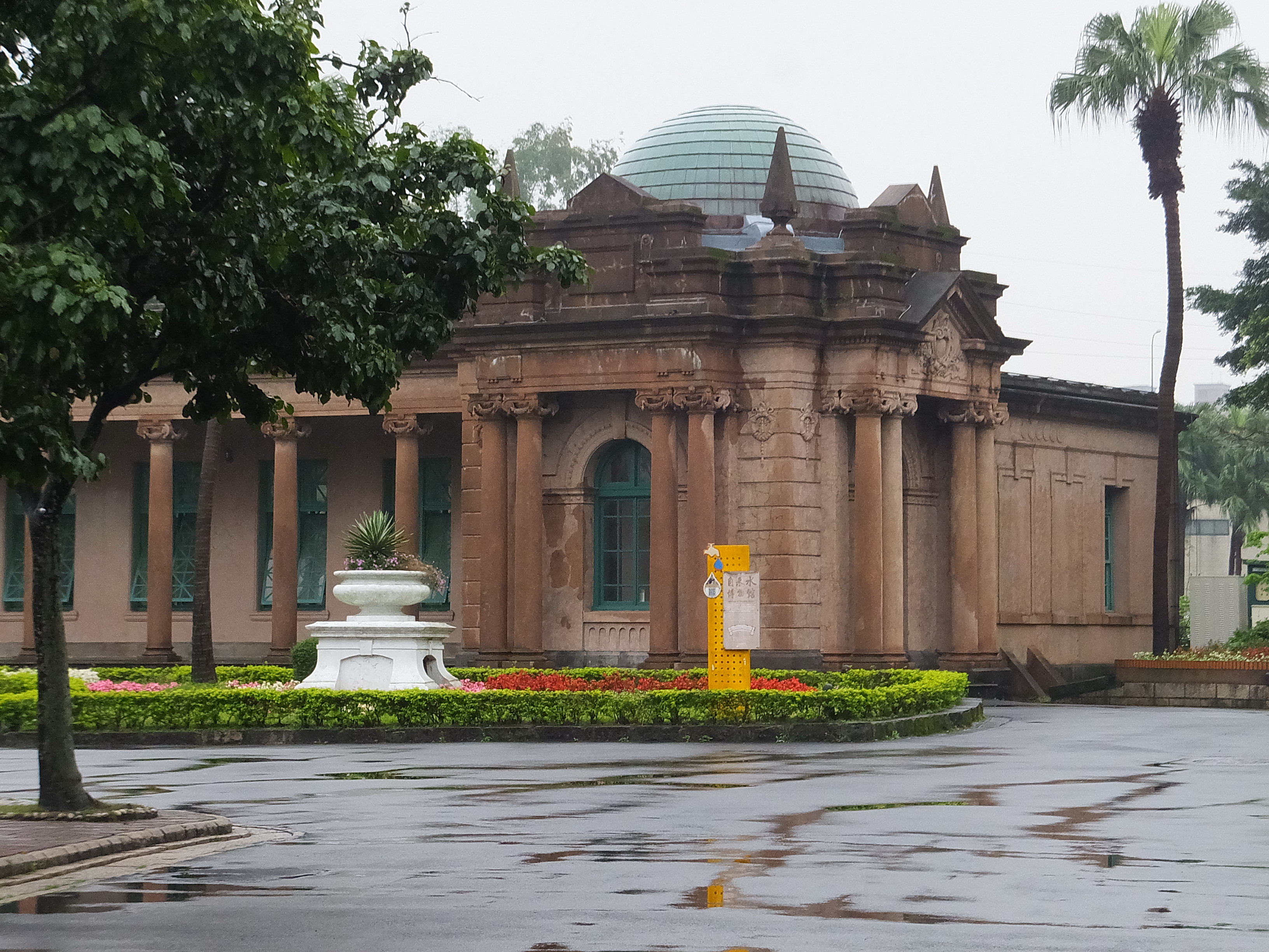 Museum of Drinking Water 自來水博物館